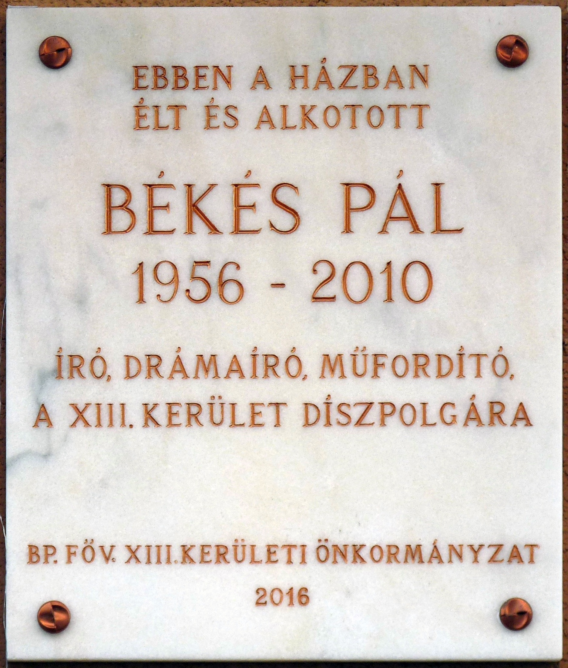 Commemorative plaque to Mr. Pál Békés (1956-2010) Hungarian writer, playwright and literary translator, citizen of honor of the 13th district of Budapest. It was affixed to the front of his former home in Budapest and unveiled on June 1, 2016. (Budapest, District XIII, Hegedűs Gyula Street Nr 24)